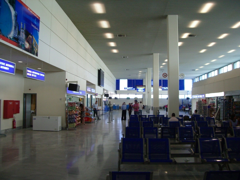 Alexander The Great Airport Internal View